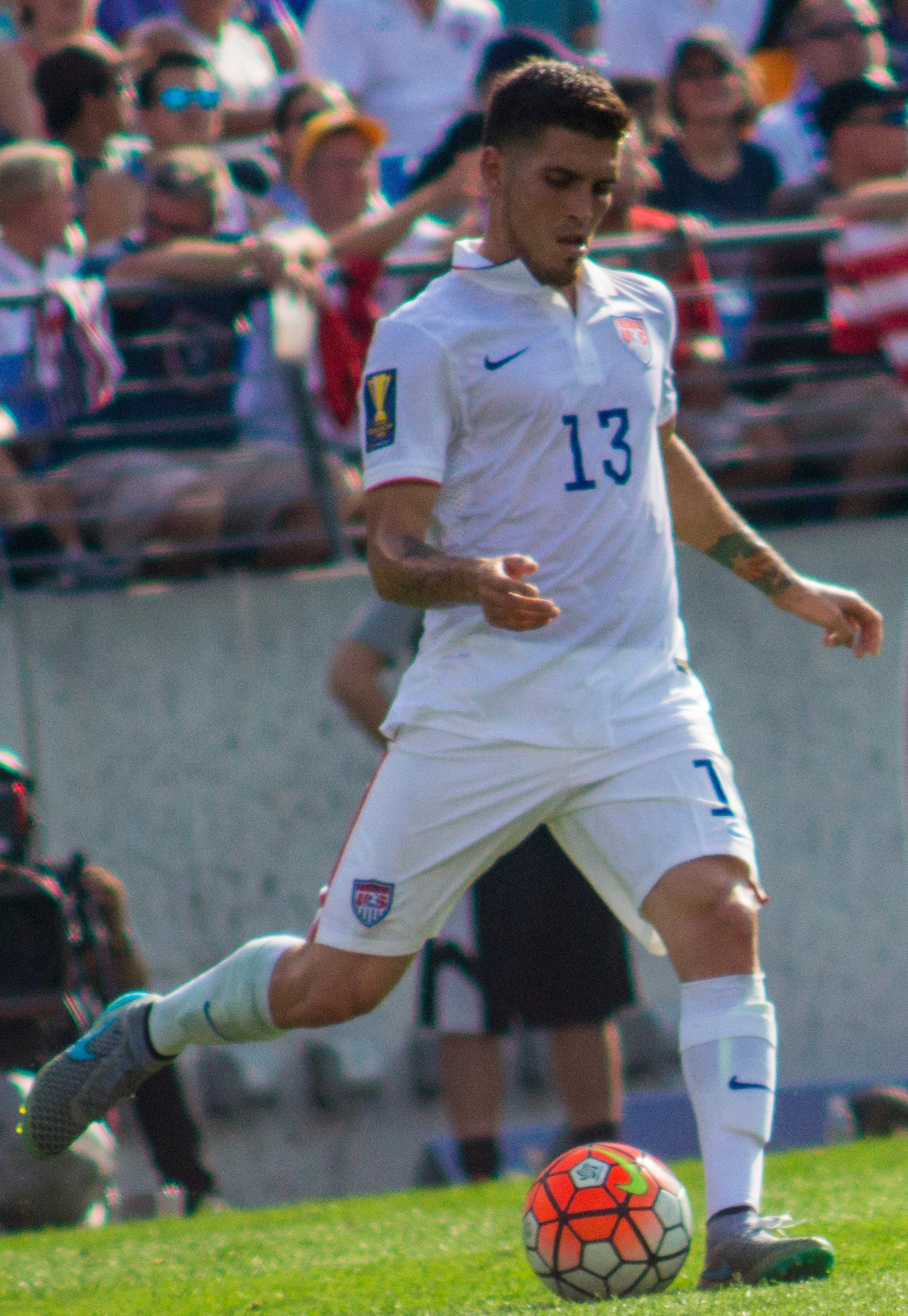 Ventura Alvarado playing for the USA vs. Cuba quarter-final match held at M&T Stadium in Baltimore, MD on Saturday, July 18, 2015 by Mary Nichols (aka DJ Fusion of the FuseBox Radio Broadcast).